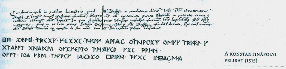 Istanbul_inscription,_1515, Old Hungarian scriptlabel QS:Len,"Istanbul_inscription,_1515, Old Hungarian script"label QS:Lhu,"Székely rovásírás, az isztambuli felirat"